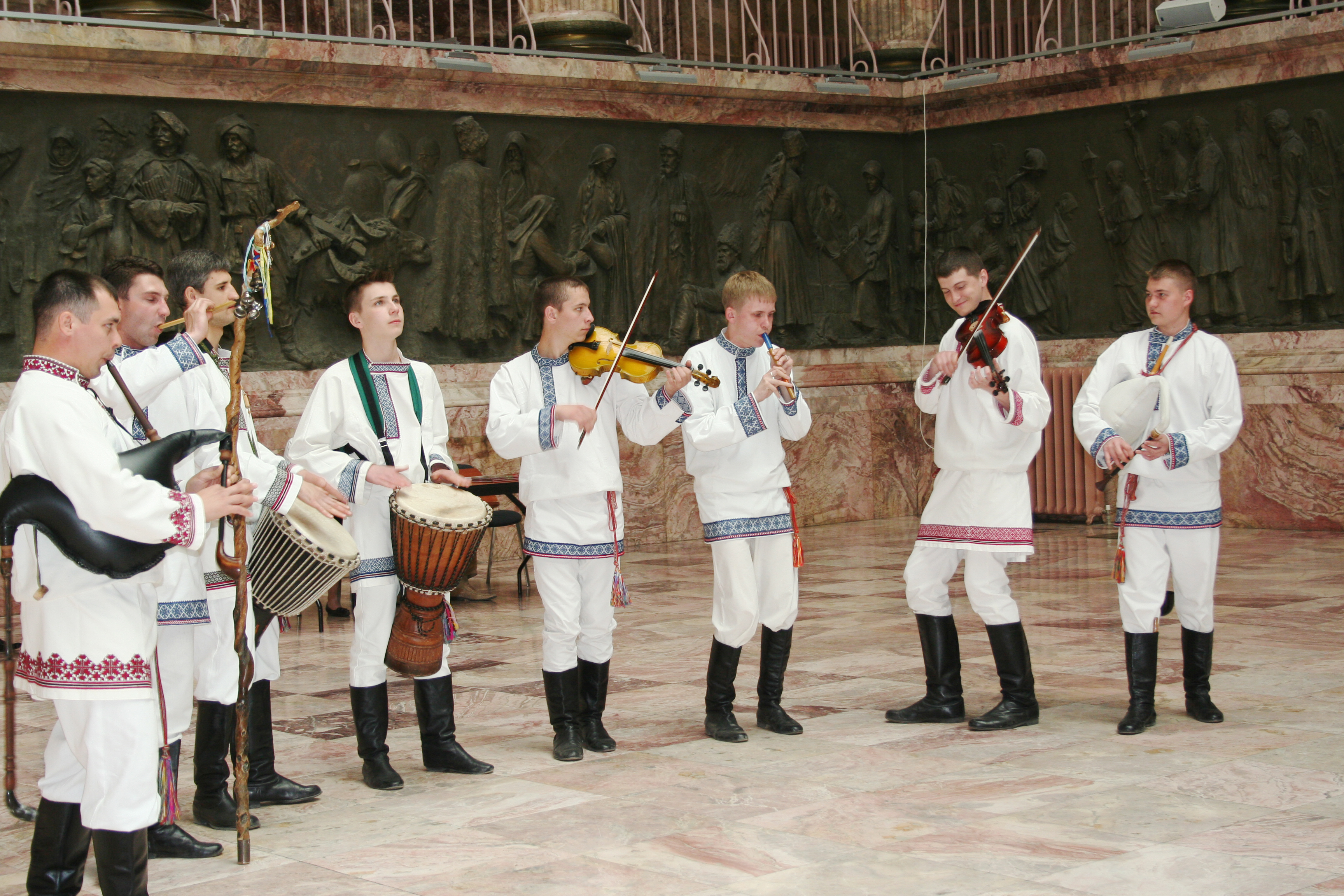 Address folk ensemble "Torama" in the Russian Museum of Ethnography (St. Petersburg)